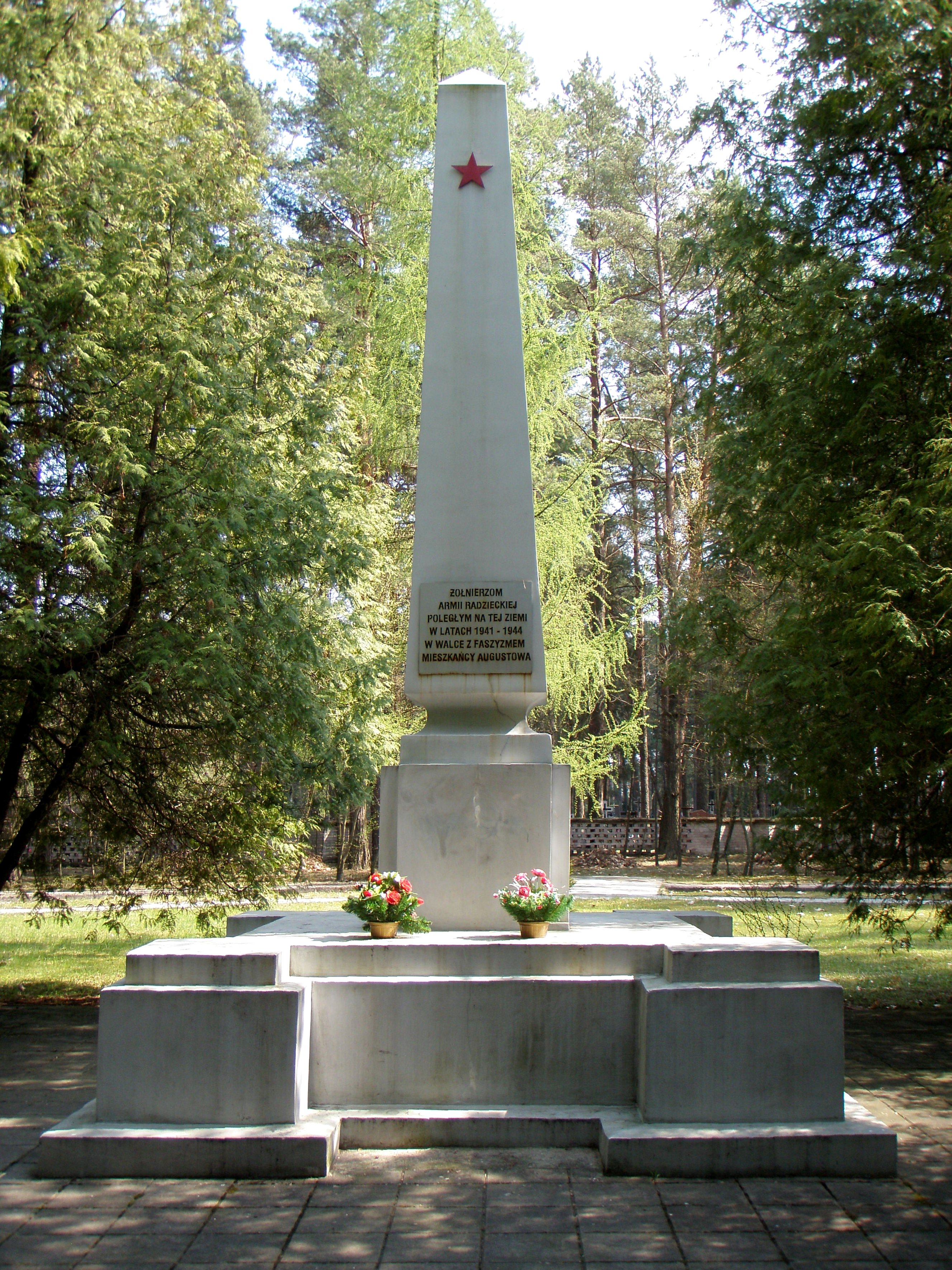 Soviet military cemetery in Augustów, Poland